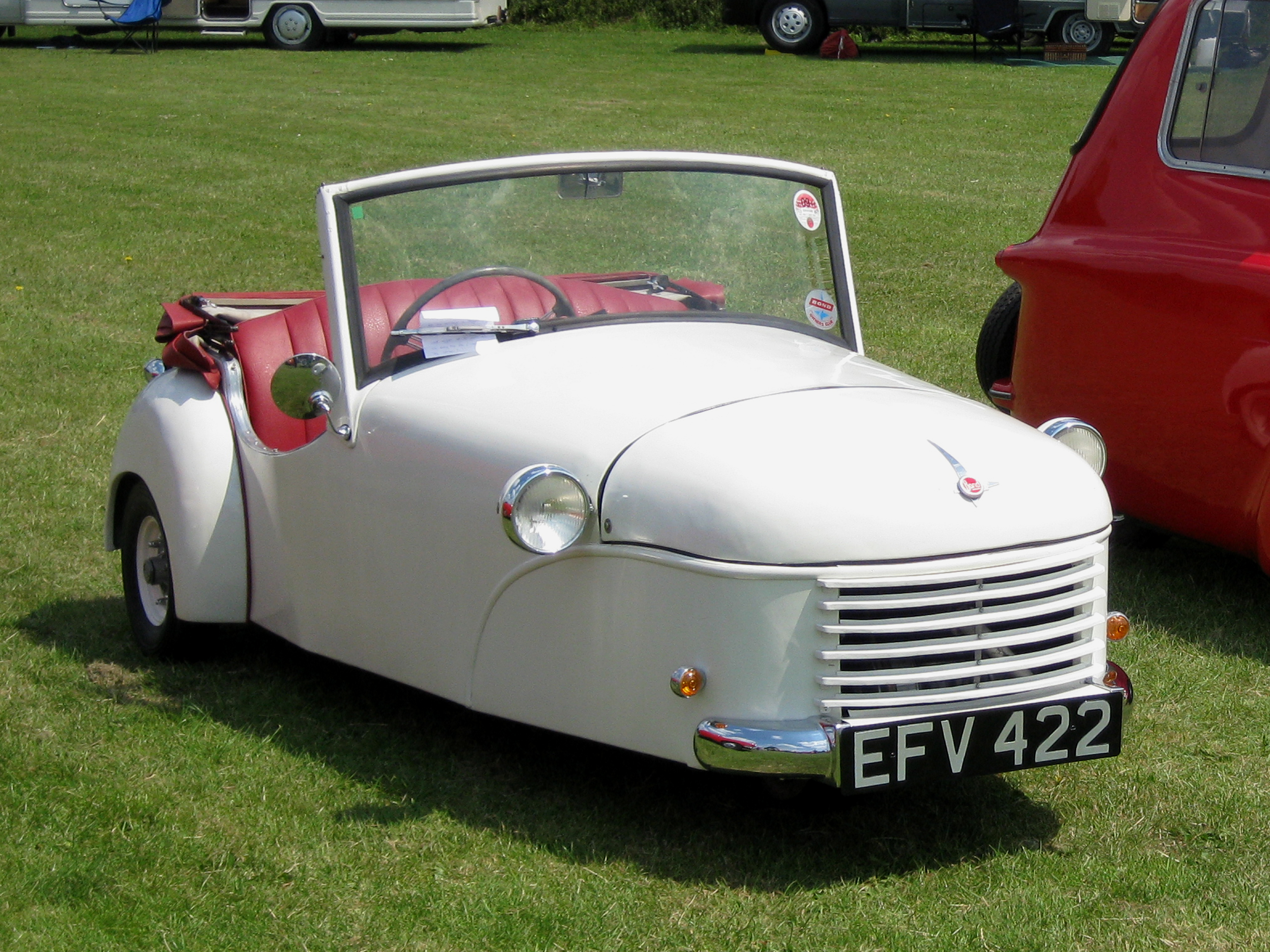 A 1951 Bond Minicar Mark A Deluxe Tourer, at the 2011 Bath Microcar Rally, Keynsham Rugby Football Ground, Keynsham